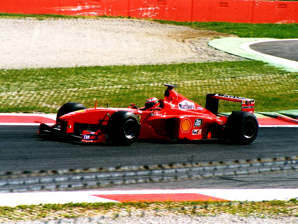 Eddie Irvine testing for Scuderia Ferrari at Monza in 1999.